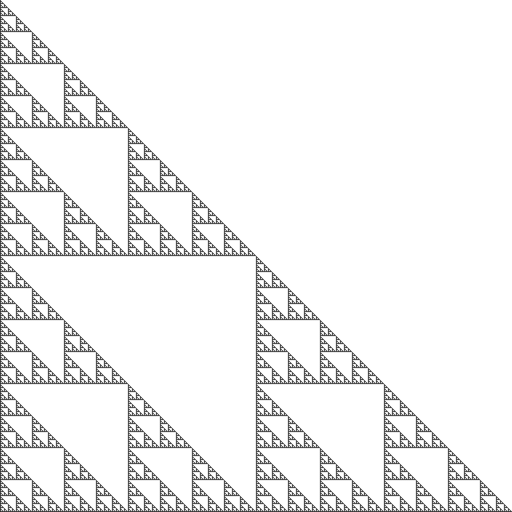 Sierpinski triangle made in paint